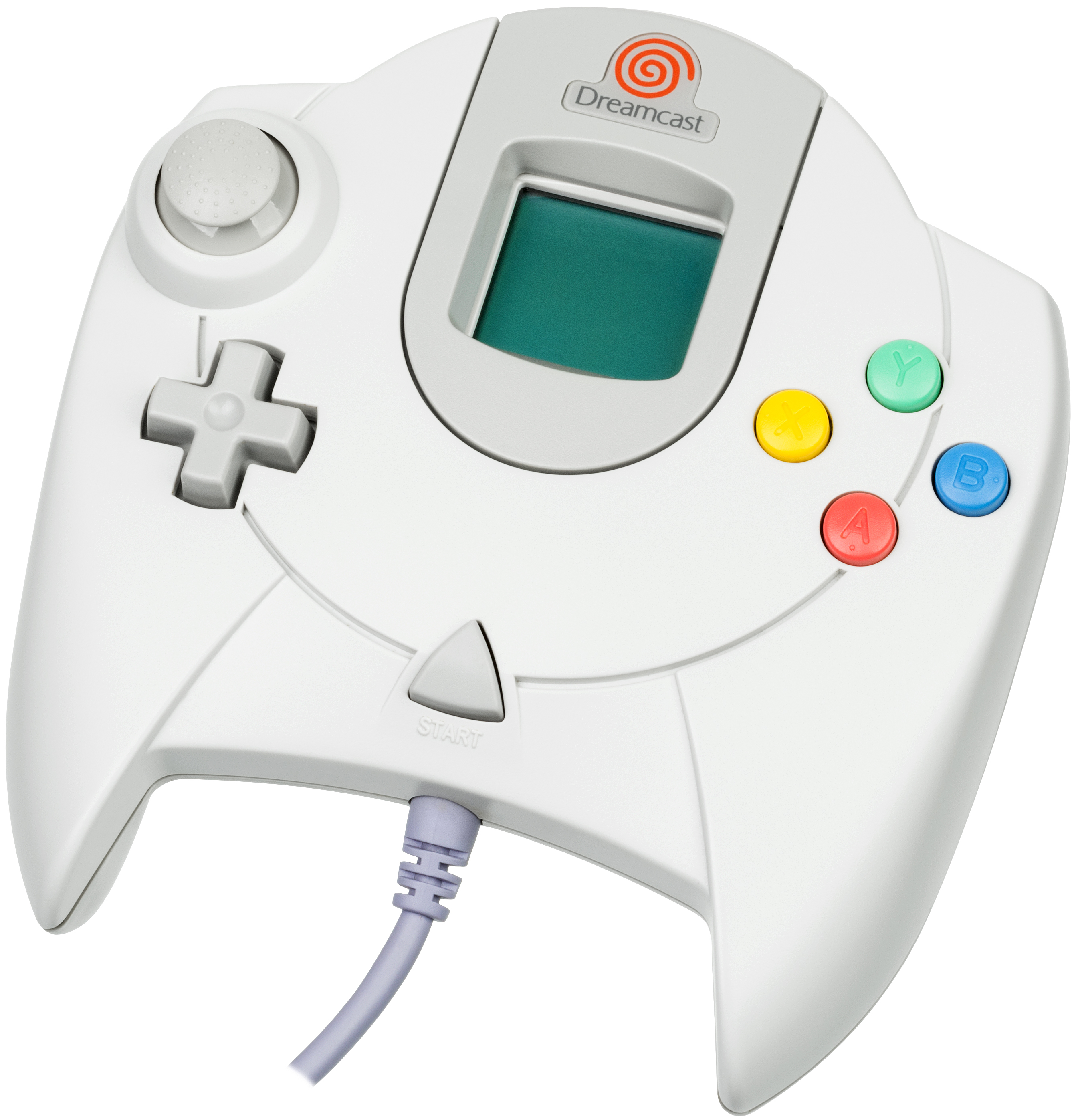 The controller for the Sega Dreamcast video game console. Featuring a unique shape and design, the controller's most notable feature are the two slots built into the controller for expansions. Most commonly, the top slot is occupied by the VMU (Visual Memory Unit), that held save data and could display simple graphics on its screen. There was also a second slot, which could hold another memory card, rumble pack, microphone or other accessories.